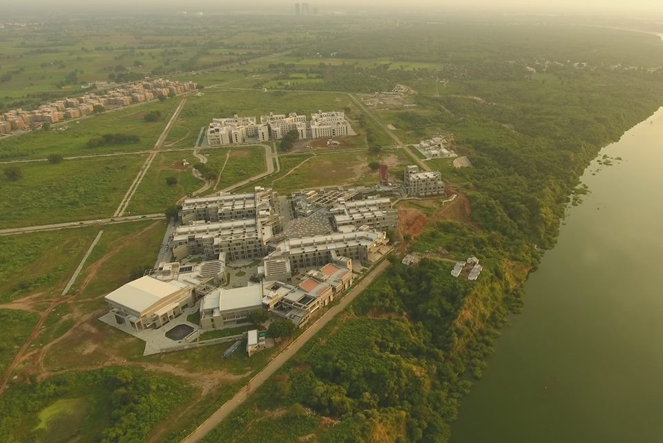 An Eagle Eye View of the campus at Sabarmati